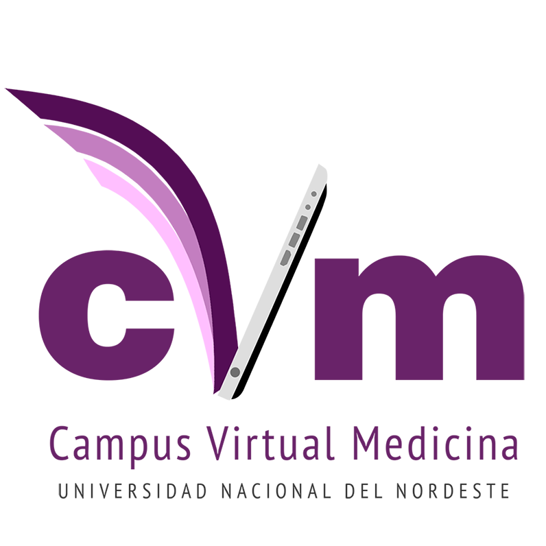 Logo del Campus Virtual de la Facultad de Medicina-UNNE